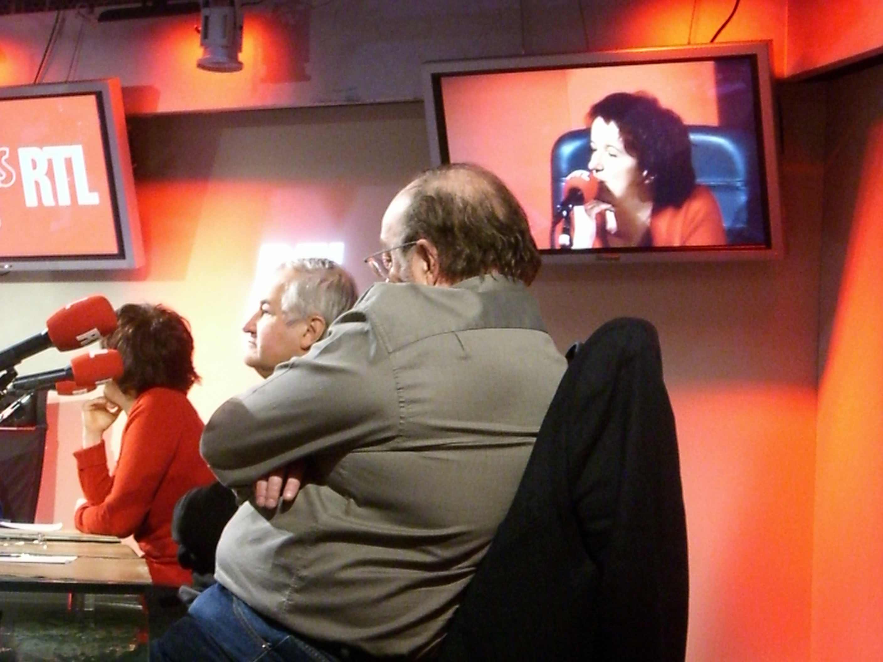 The Shareholders (Bernard Mabille and Jacques Mailhot) of the "Les Grosses Têtes" Philippe Bouvard on RTL.